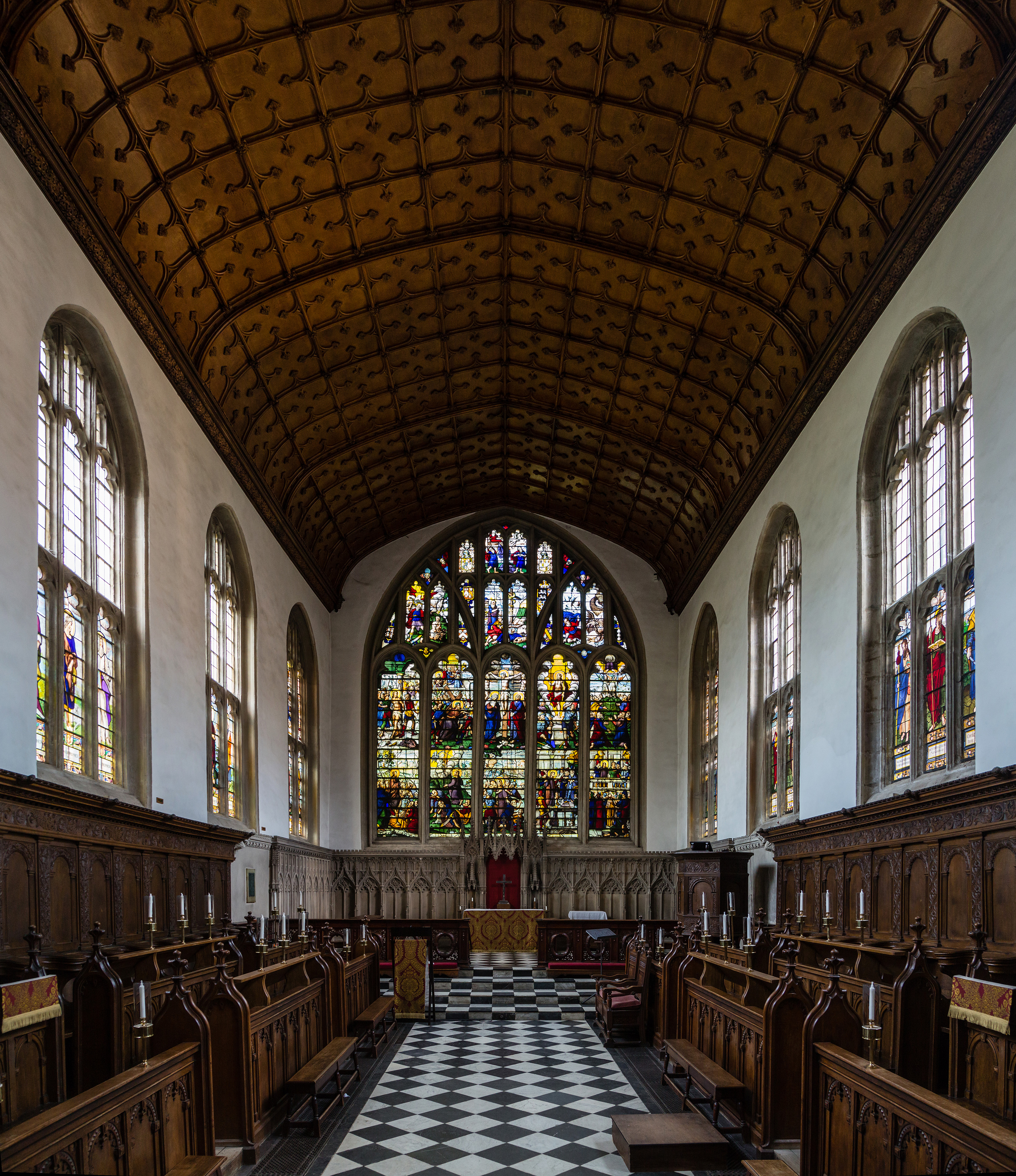 Inside Wadham College Chapel, Oxford, looking toward the east window